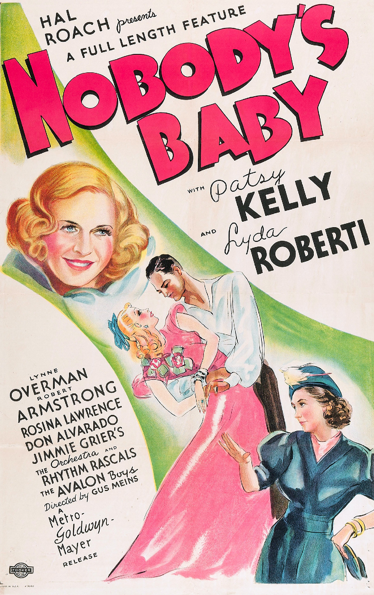 Poster for the American comedy film Nobody's Baby (1937). The item has no copyright markings on it as can be seen in the links above. At bottom left is Litho in USA, #9690, and a logo of Tooker Litho Co., NY-they printed the poster.